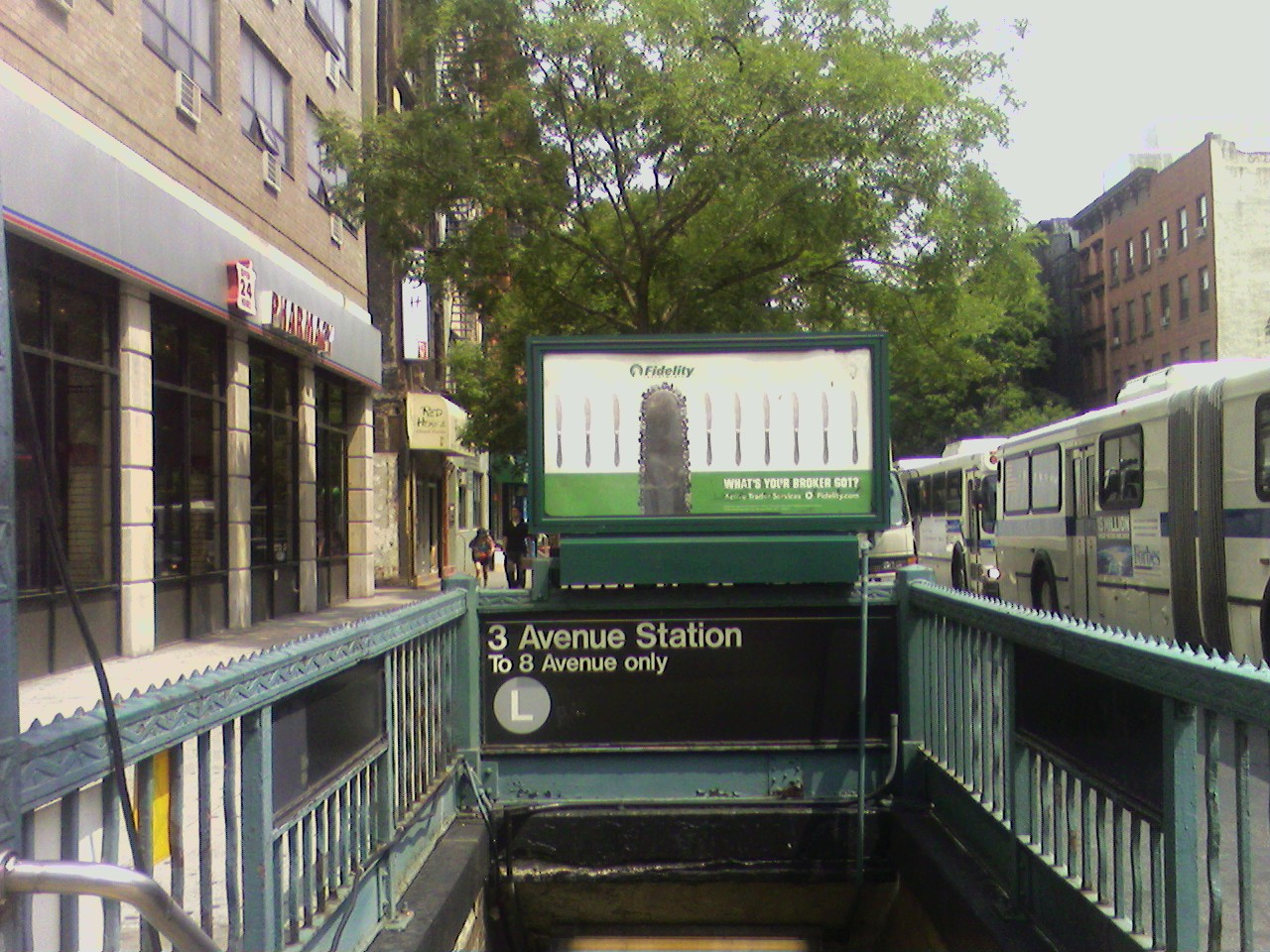 The entrance to the Third Avenue subway station in the East Village of Manhattan.